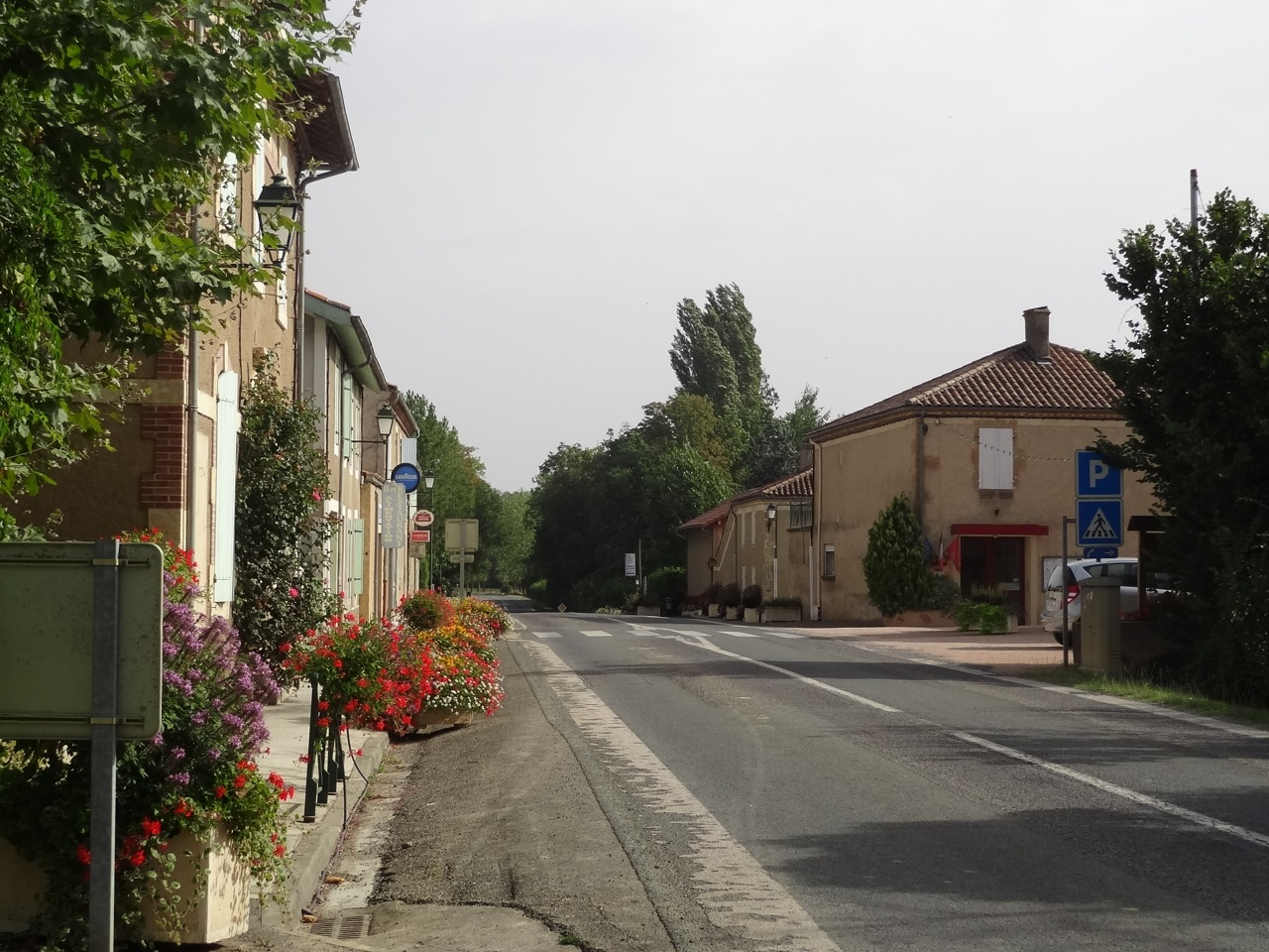 Main street of Ornezan (Gers)